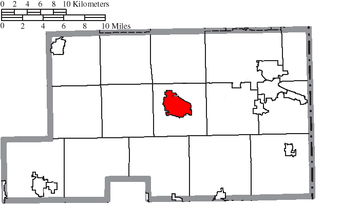 Map of the municipal and township boundaries of Mahoning County, Ohio, United States, as of the 2000 census, with the location of the city of Canfield highlighted. Township borders are shown only in unincorporated areas in order to differentiate incorporated and unincorporated areas more clearly.